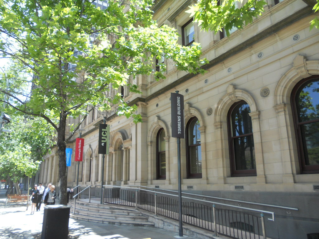 Carnegie Mellon University, Adelaide